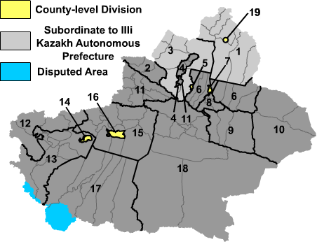 Map of prefectures of Xinjiang Autonomous Region